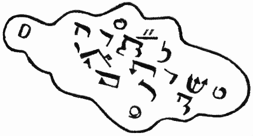 Figure 81. BREASTPLATE OF MOSES. Scan of plate 81 of the 1880 translation of the 1849 Johann Scheible (editor) version of The Sixth And Seventh Books Of Moses. No Author given. "The sixth and seventh books of Moses: or, Moses' magical spirit-art, known as the wonderful arts of the old wise Hebrews, taken from the Mosaic books of the Cabala and the Talmud, for the good of mankind. Translated from the German, word for word, according to old writings". s.n., New York 1880. translation of Das sechste und siebente Buch Mosis, das ist: Mosis magische Geisterkunst, das Geheimniss aller Geheimnisse. Sammt den verdeutschten Offenbarungen und Vorschriften wunderbarster Art der alten weisen Hebräer, aus den Mosaischen Büchern, der Kabbala und den Talmud zum leiblichen Wohl der Menschen. Wort- und bildgetreu nach alten Handschriften mit 42 Tafeln. (Liepzig, 1849). Online scans avalilable at: The Sixth and Seventh Books of Moses and "The sixth and seventh books of Moses: or, Moses' magical spirit-art, known as the wonderful arts of the old wise Hebrews, taken from the Mosaic books of the